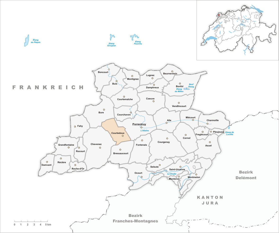 Municipality Courtedoux Artist: Tschubby